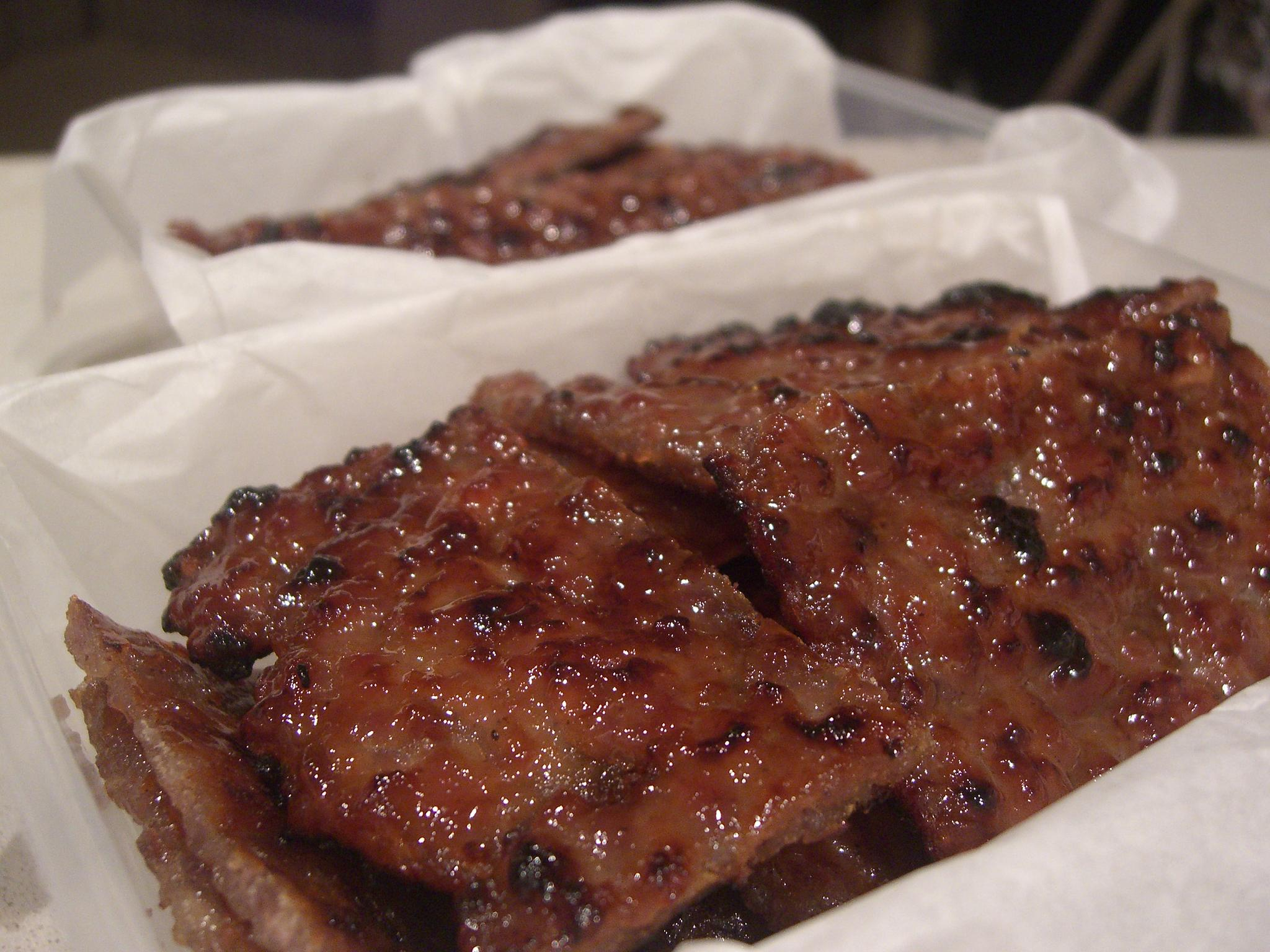 Chinese bakkwa (sweet meat jerkey), the food depicted is made from pork / 肉乾 / 肉干